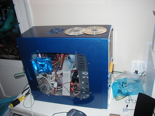 An X-Dreamer II case with light-up fans and a window in the side.